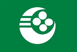 Flag of Motosu Gifu